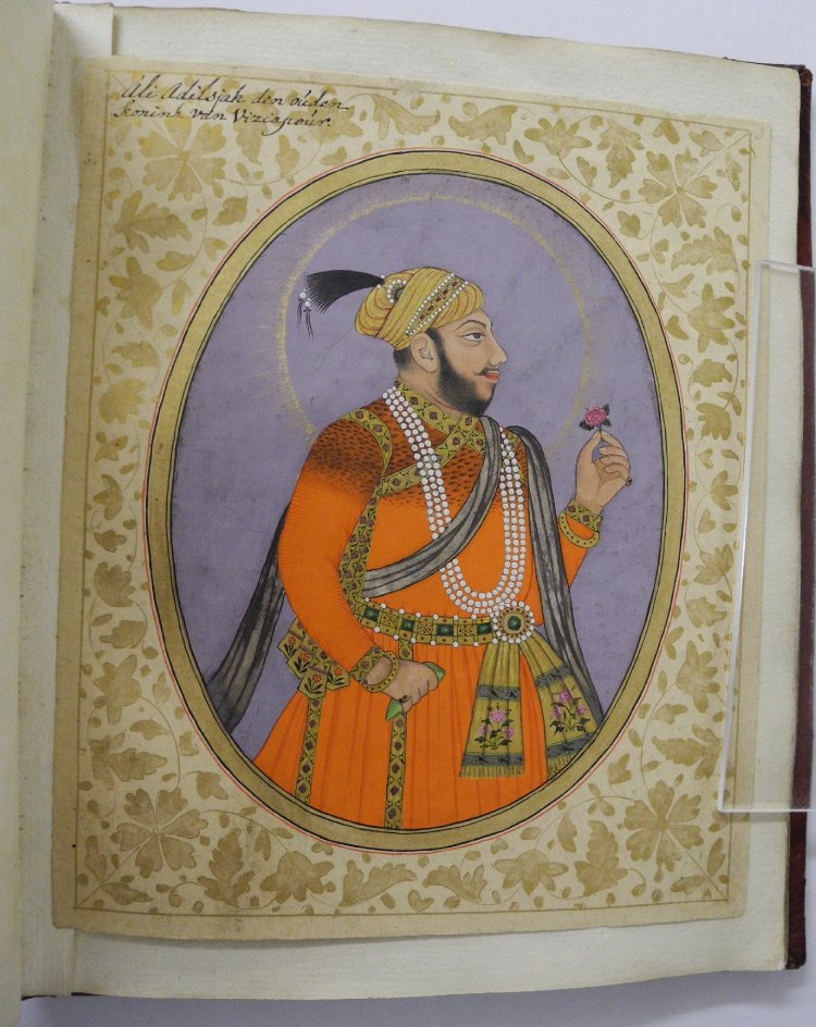 Album leaf. Portrait. ʿAli ʿAadil Sháh II of Bijapur + inscription. On paper.